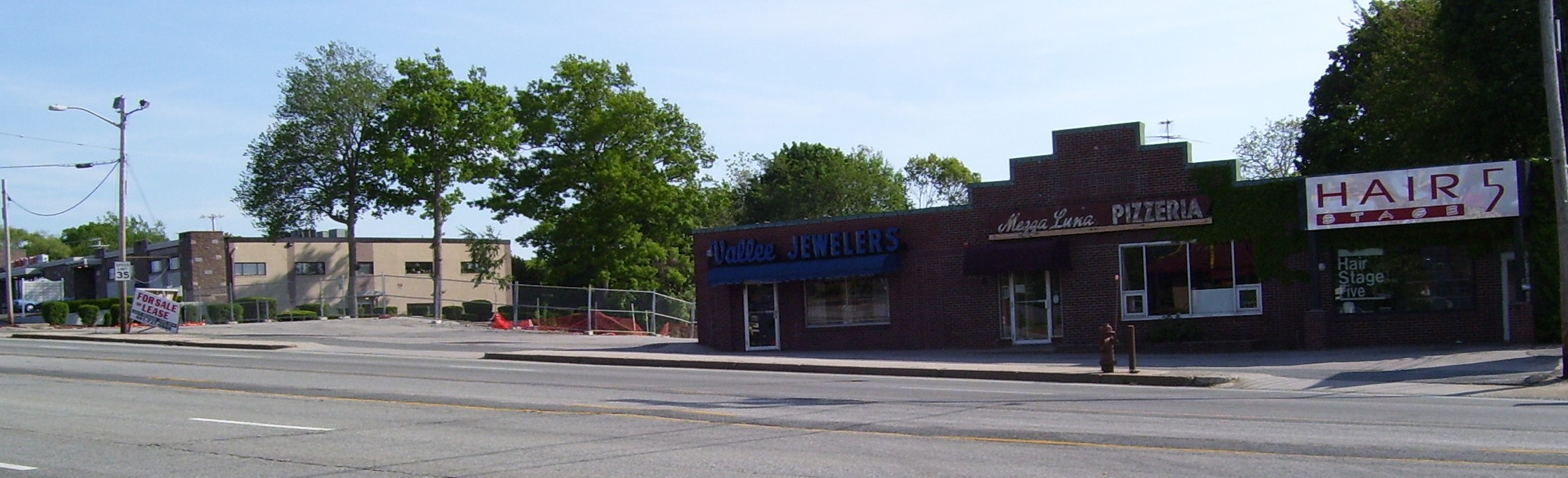 This is my 2008 photo of Park Square Rhode Island.